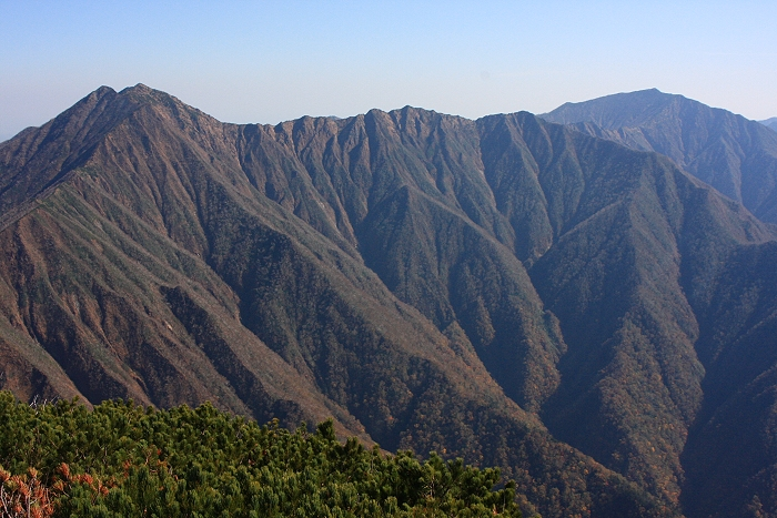 Southern Hidaka Three Mountains, Mount Soematsu (left) and Pirikanupuri (far right) as seen from Mount Kamui